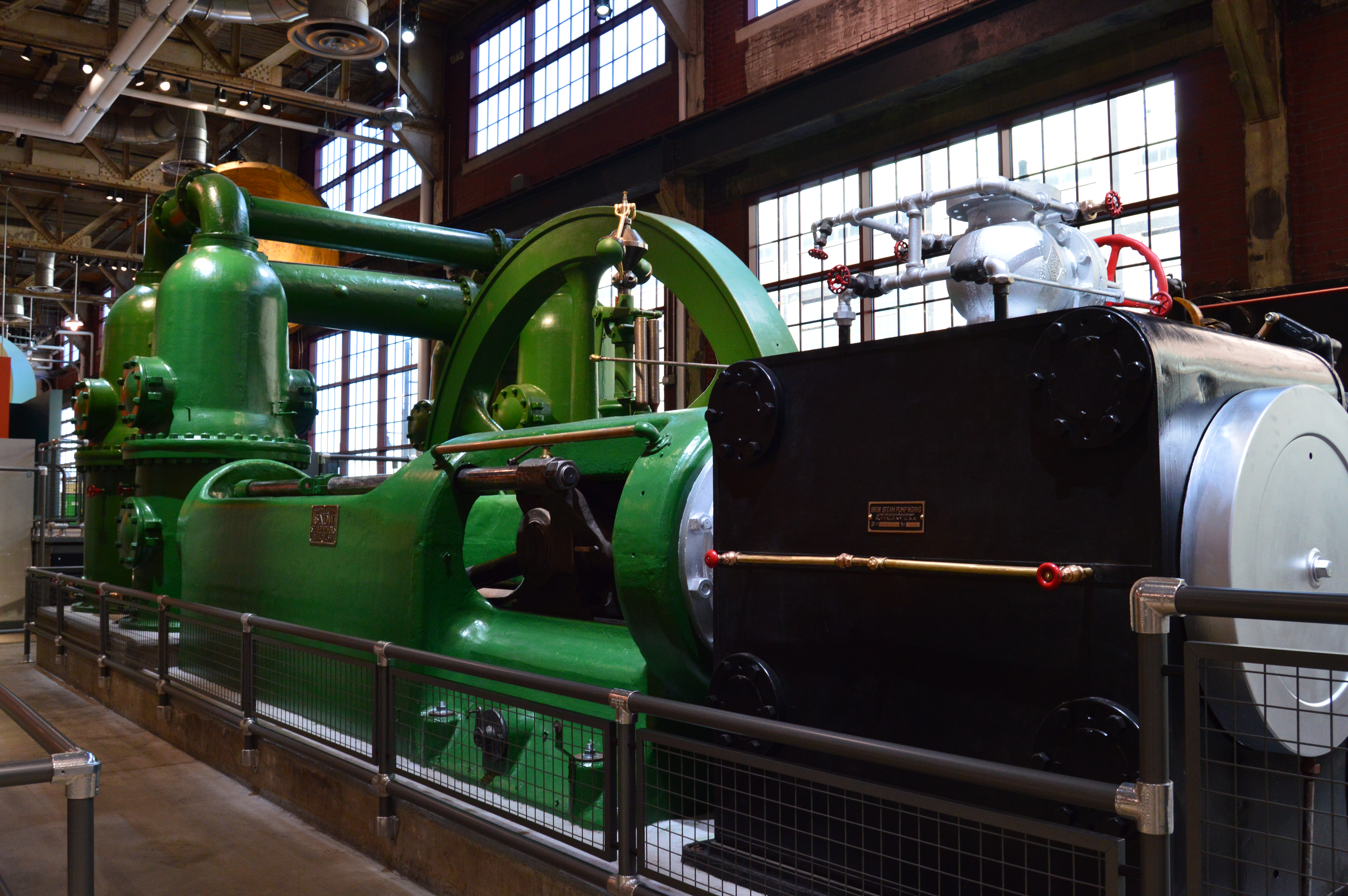 photo